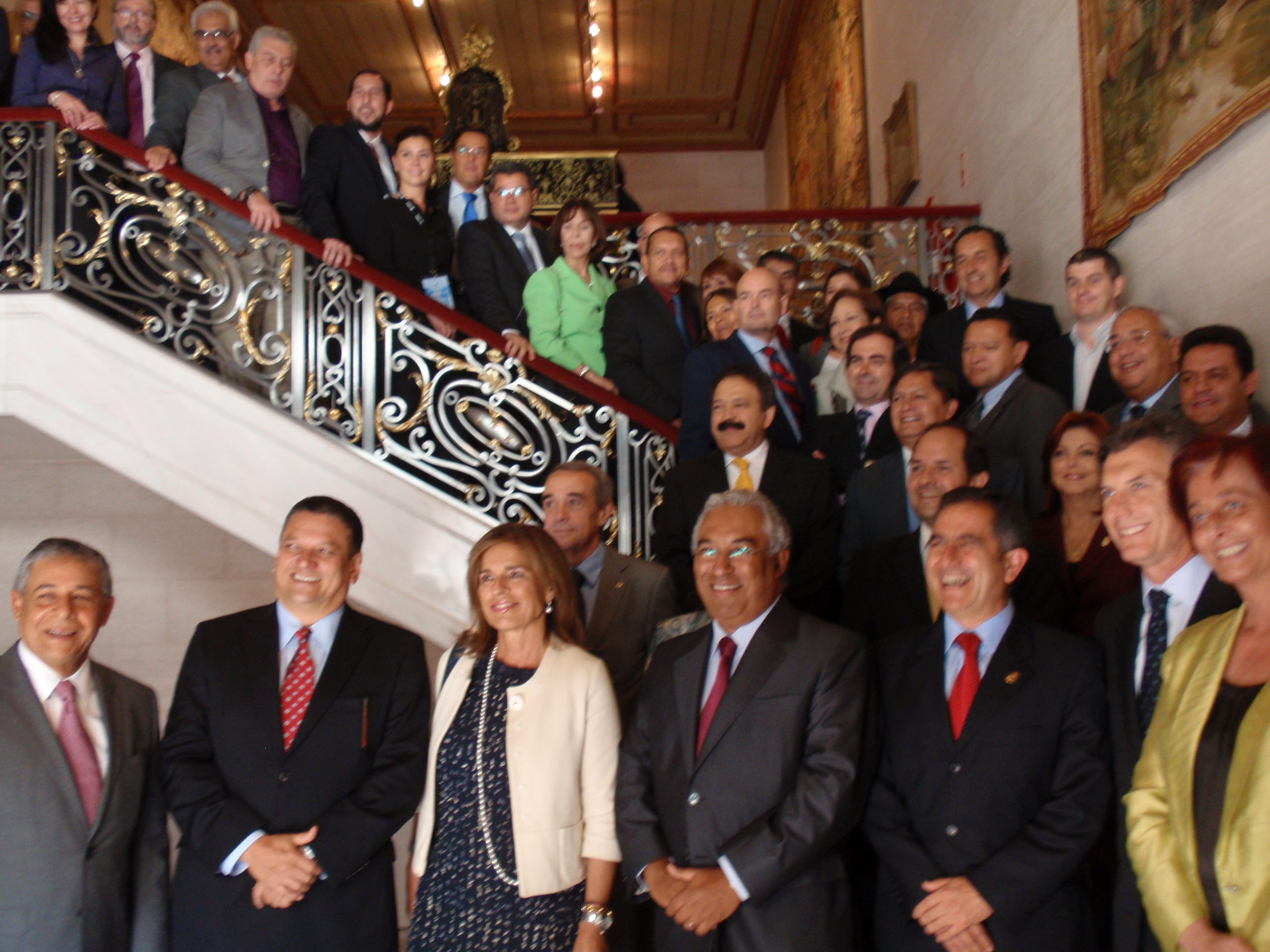 Lisboa, Portugal. Octubre 15 de 2012. El jefe de Gobierno porteño, Mauricio Macri, participó de la XV Asamblea Plenaria de la Unión de Ciudades Capitales Iberoamericanas, que se desarrolló en Lisboa.